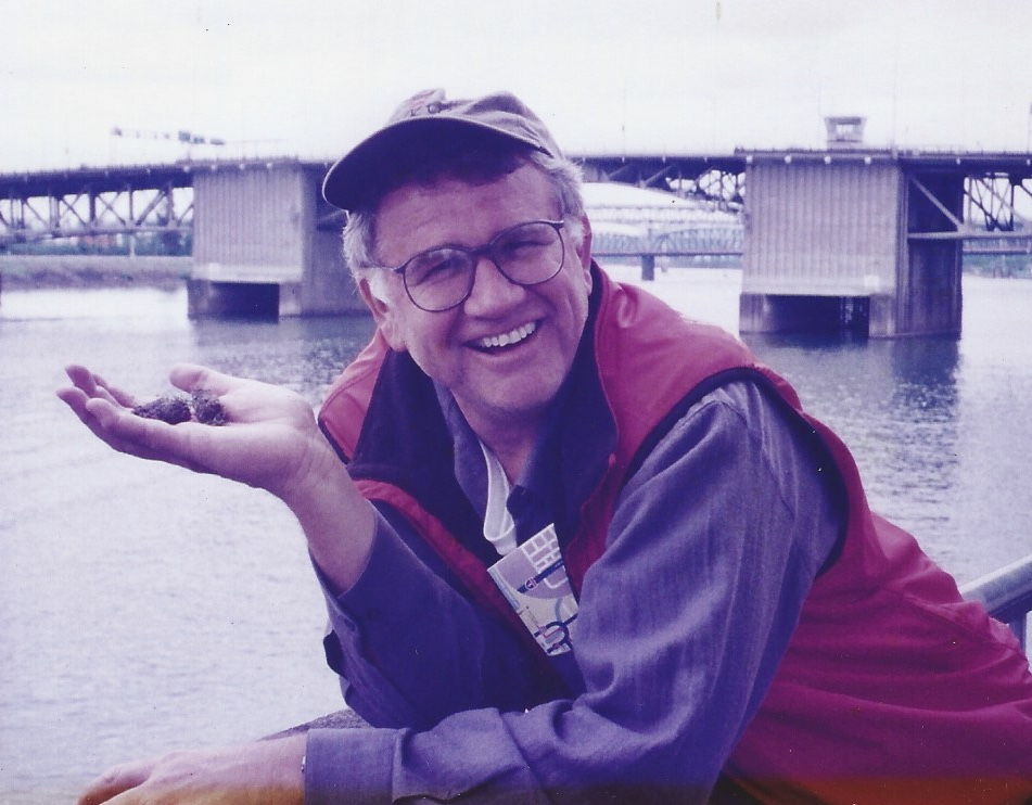 Brown at Morrison Bridge in Portland, Orego